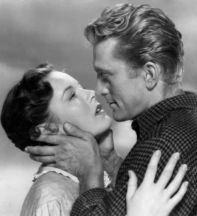 Publicity photo of Eve Miller and Kirk Douglas for film The Big Trees.